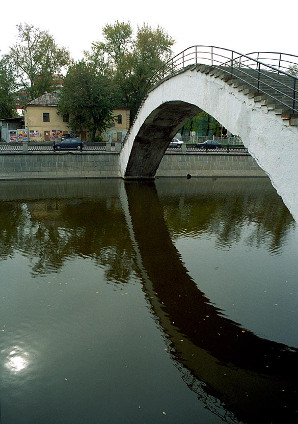 Saovnichesky Bridge, Moscow, Russia